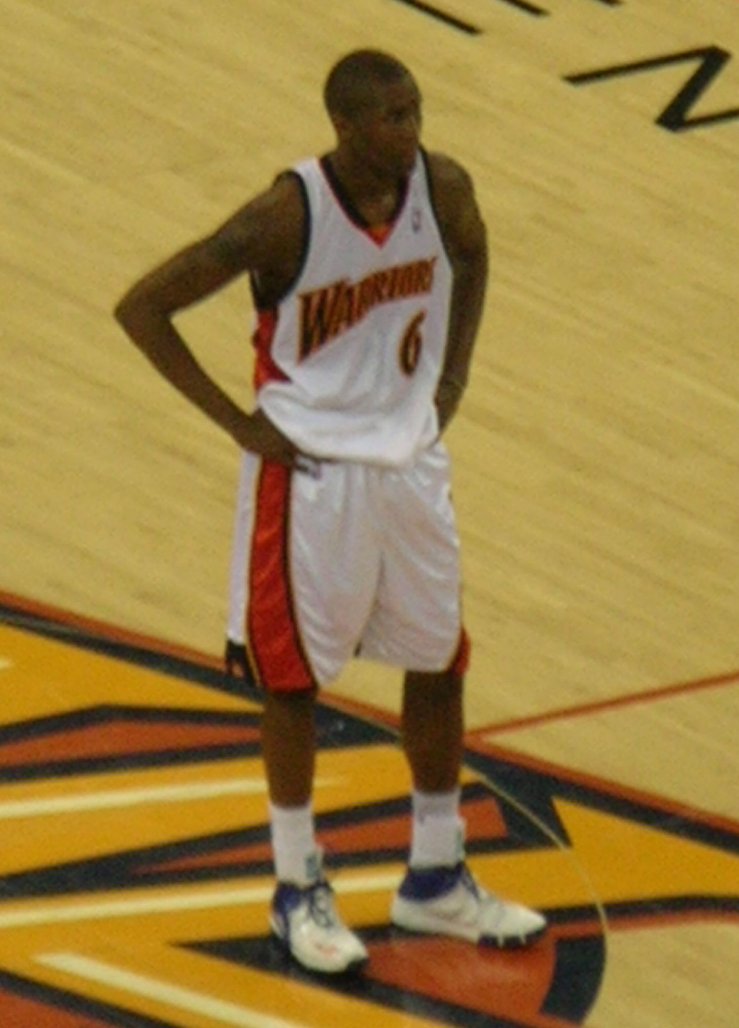 Golden State Warriors point guard Jamal Crawford at a home game against the Phoenix Suns. The Suns won 154-130.